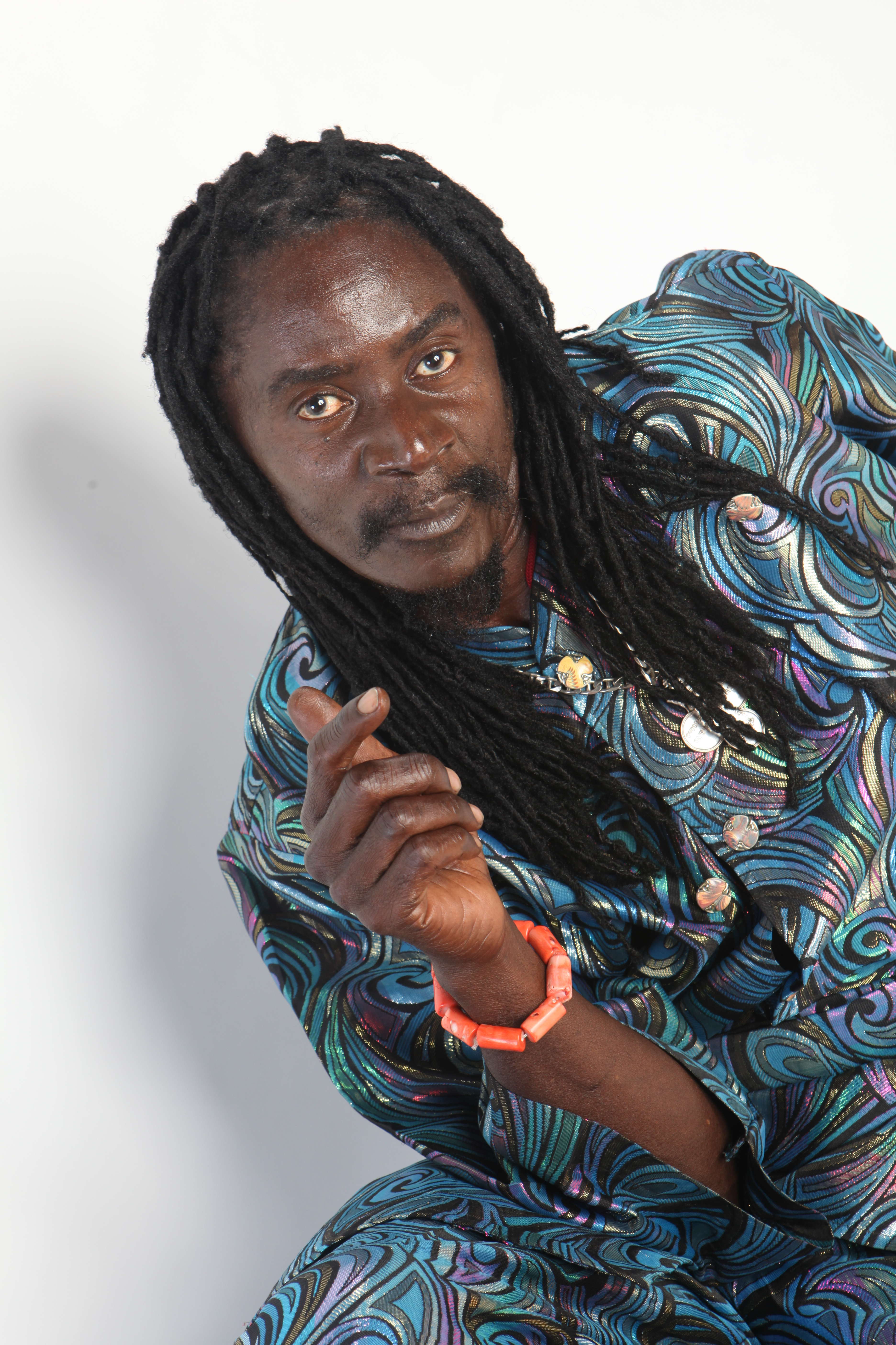 Born Everton Dennis Williams Clarendon, Jamaica Residence Fort Lauderdale, Florida Nationality Jamaican Musician Years active 1970's-present Spouse Phyllis Williams Children Isha Williams Aisha Williams Chisimo Williams Everton Jr. Williams